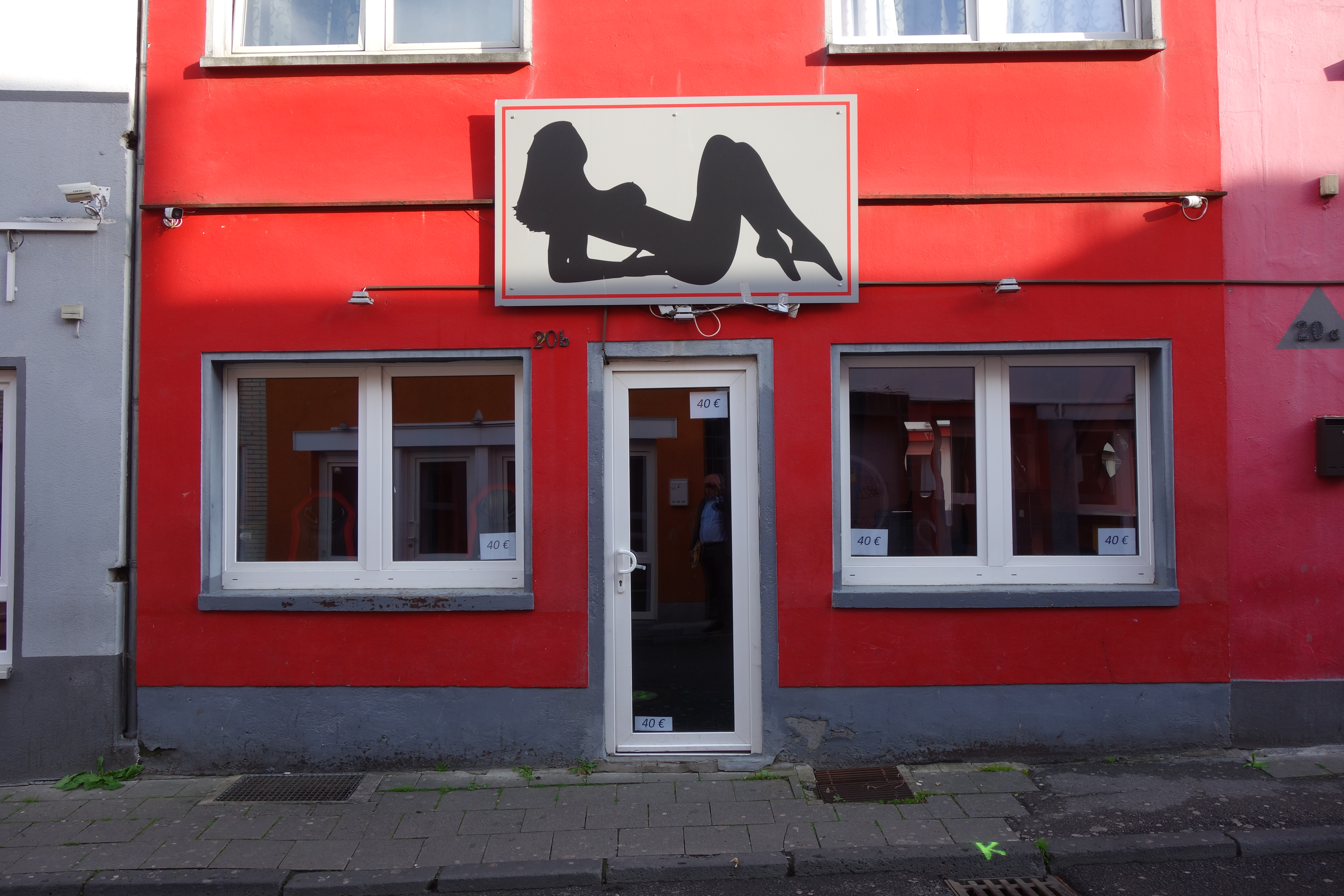 Antoniusstraße Aachen